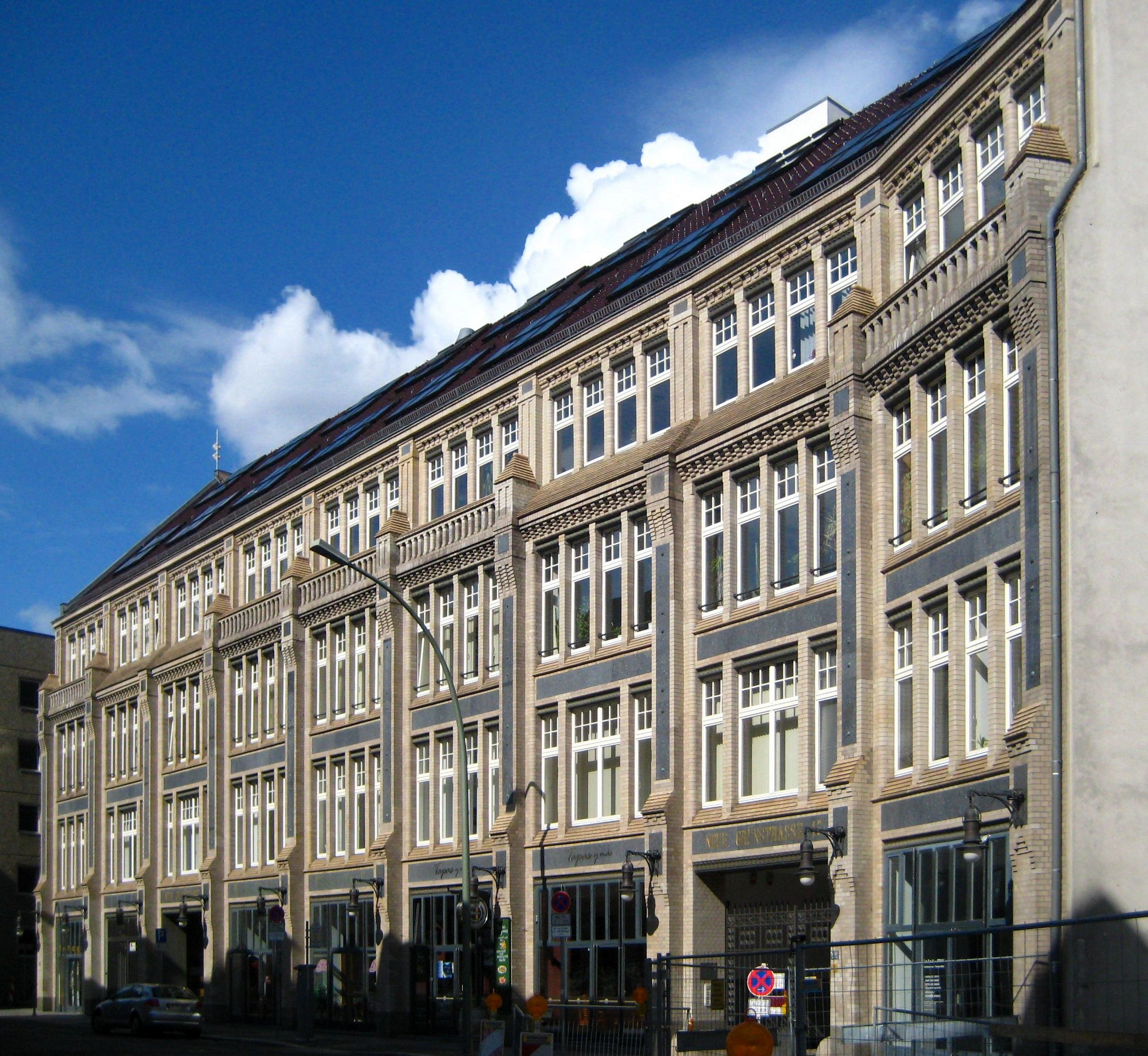 Commercial building with inner yards for small businesses at Neue Grünstraße 17-18 in Berlin-Mitte. The large complex has four inner yards and occupies the whole lot up to Alte Jakobstraße, where another front building stands (No. 85-86). It was built before 1892 and received its current outlook during renovation in 1910. The facade at Neue Grünstraße highlights the separation of the ground floor with stores, two main floors and the attic. The building complex is landmarked.